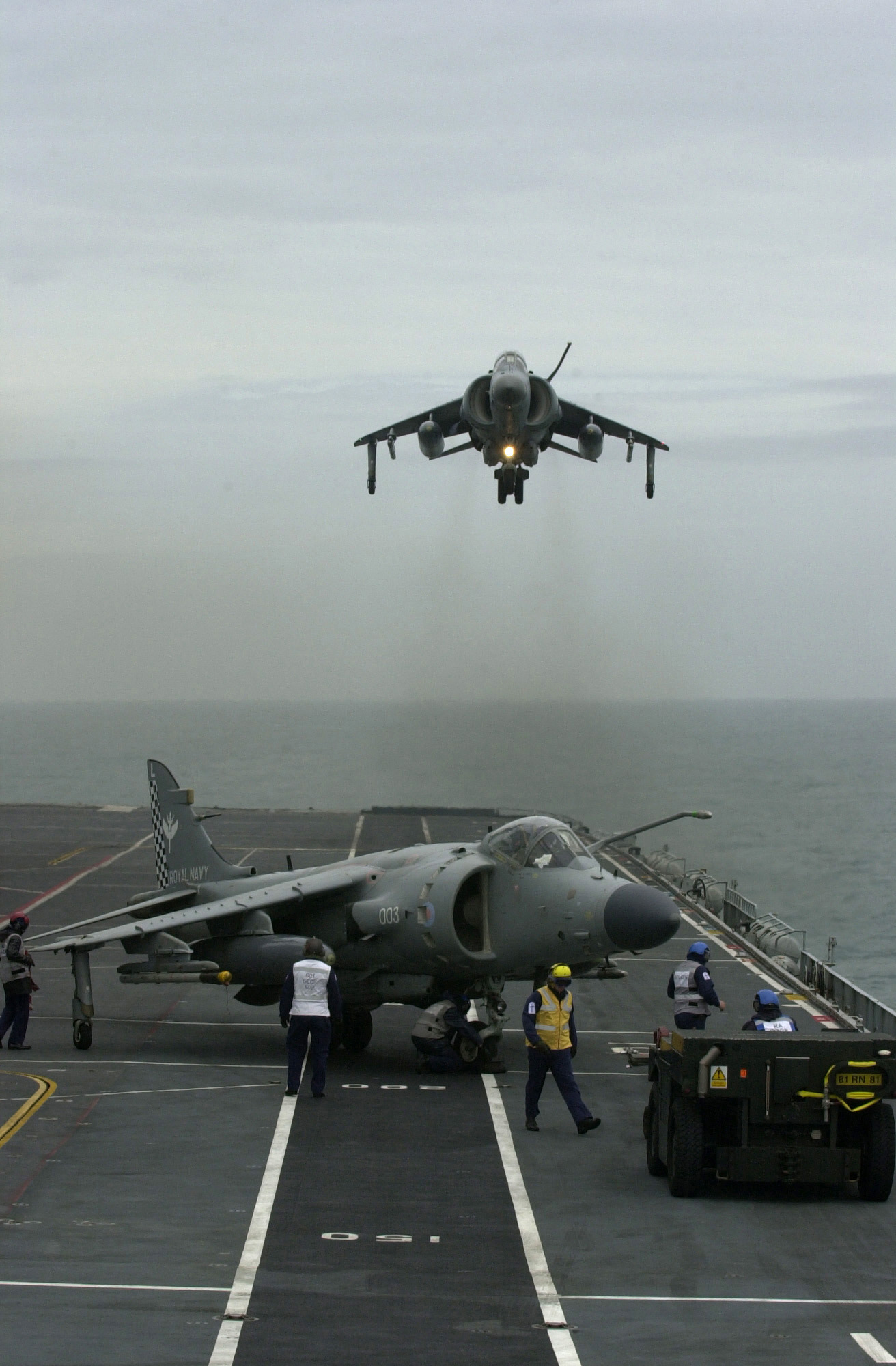 A Royal Navy BAe Sea Harrier FA2 hovers above the flight deck of the flight deck of HMS Illustrious (R06) as it positions itself for landing on 25 June 2001. The aircraft belonging to 801 Naval Air Squadron was providing air support to British and U.S. units ashore during their participation in the Joint Maritime Course (JMC), the equivalent of the U.S. Navy's JTFEX with the USS Enterprise Carrier Battle Group. USS Enterprise (CVN-65) was on a six-month long deployment to the Mediterranean.